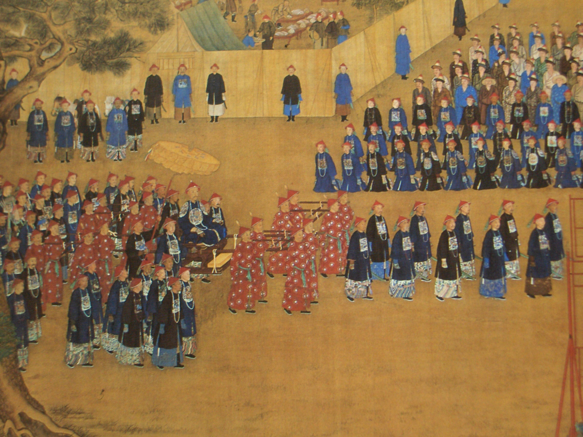 Qianlong and his court in Chengde